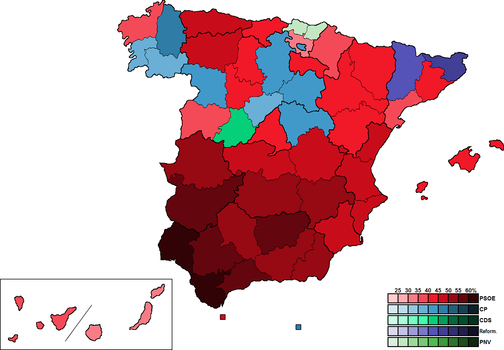 Provincial results for the 1986 Spanish general election.